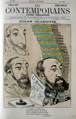 Caricature of French writer, playwright, literary critic and historian Jules Claretie (1840–1913) by Alfred Le Petit (1841–1909) in Les Contemporains, n° 22, 1881.